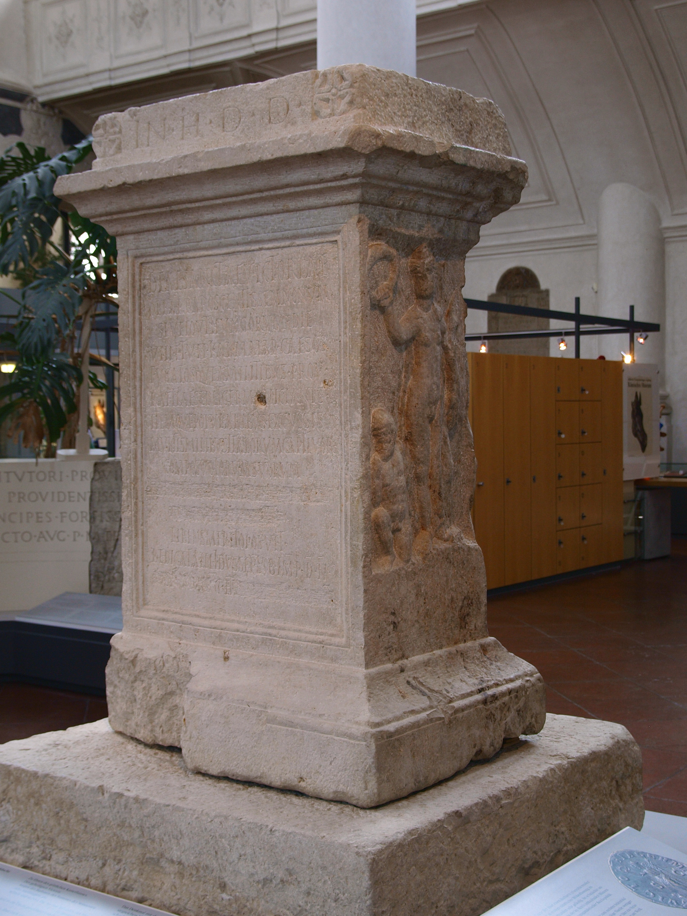 Roman memorial stone from Augsburg, Germany